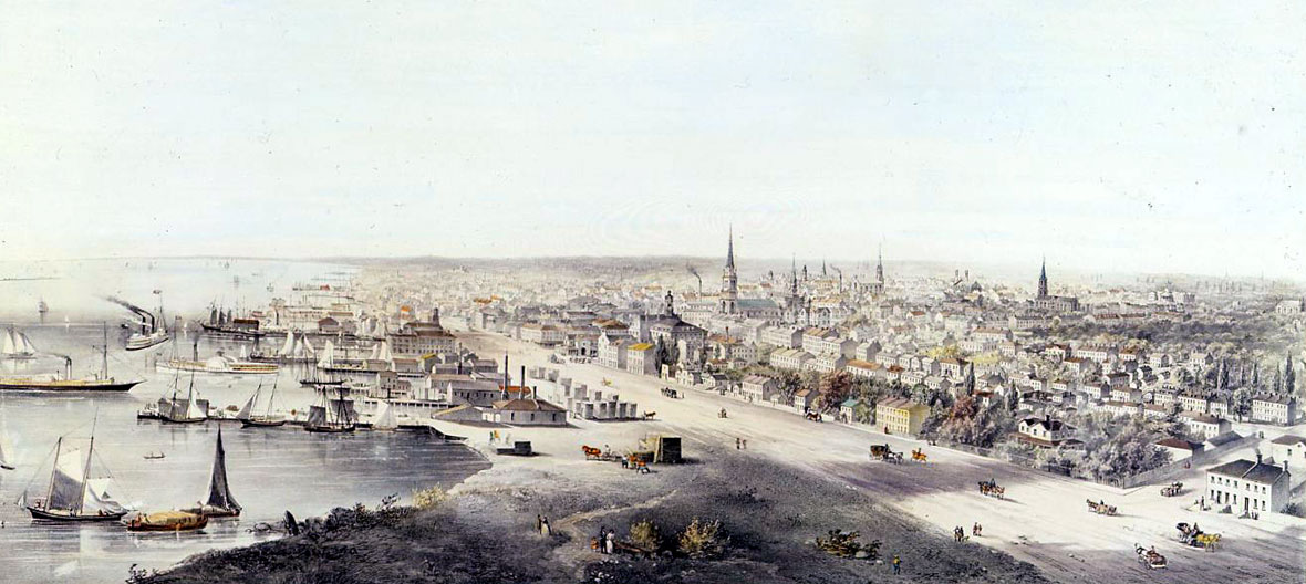 Toronto, Canada West, from the top of the Jail. lithograph, coloured by hand. Inscription: Inscribed in the print, upper border, "Whitefield's Original Views of North American Cities, No. 30." and lower border "Drawn by E. Whitefield. Entered...1854...New York. Lith. of Endicott & Co. N.Y. Toronto, Canada West. From the top of the Jail...1854 [with numbered key to buildings.]"